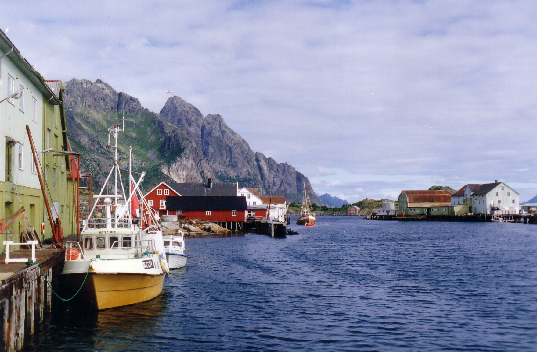 The fishing village of Henningsvær in Lofoten, North Norway